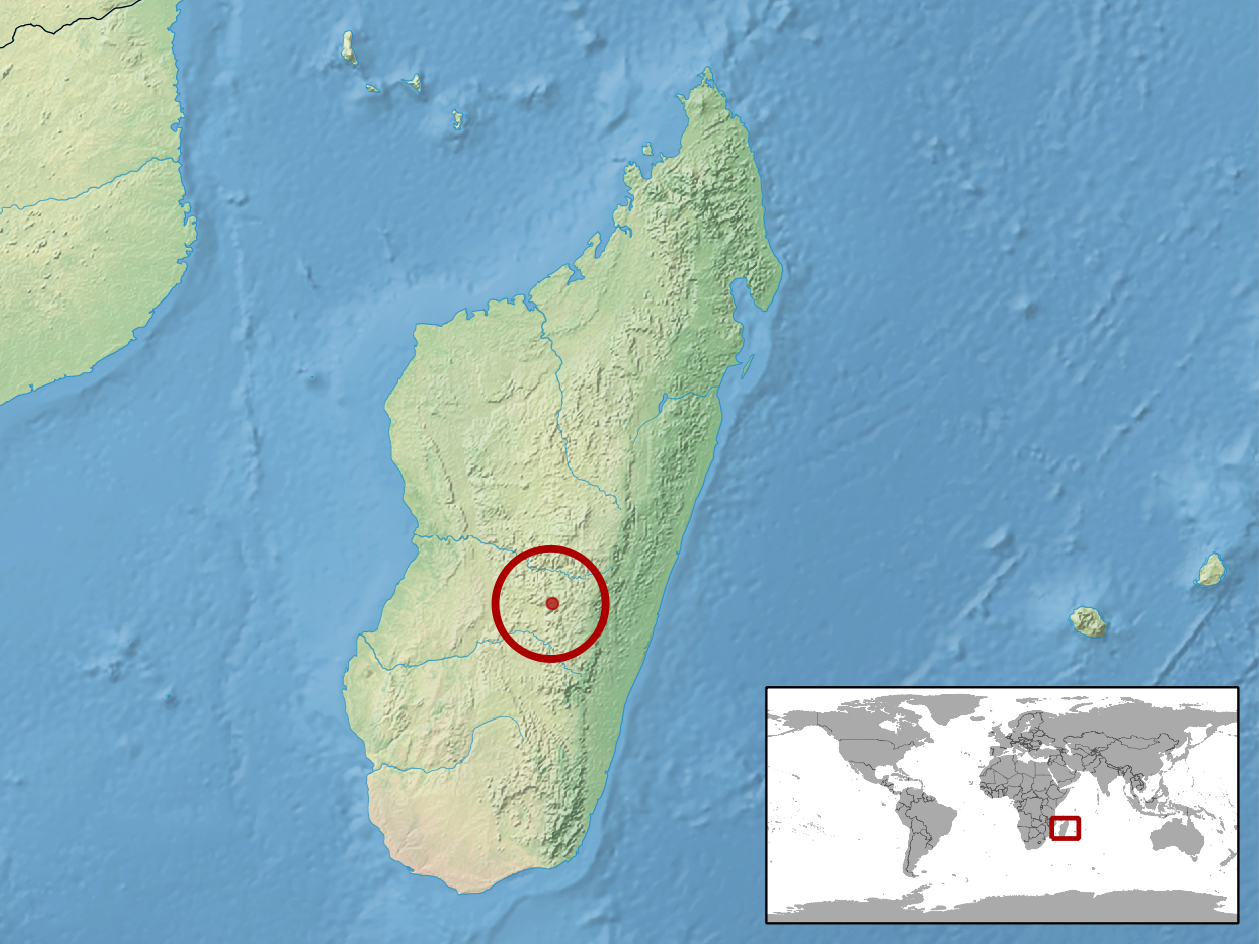 geographic distribution of Lygodactylus pauliani (Native: Madagascar)